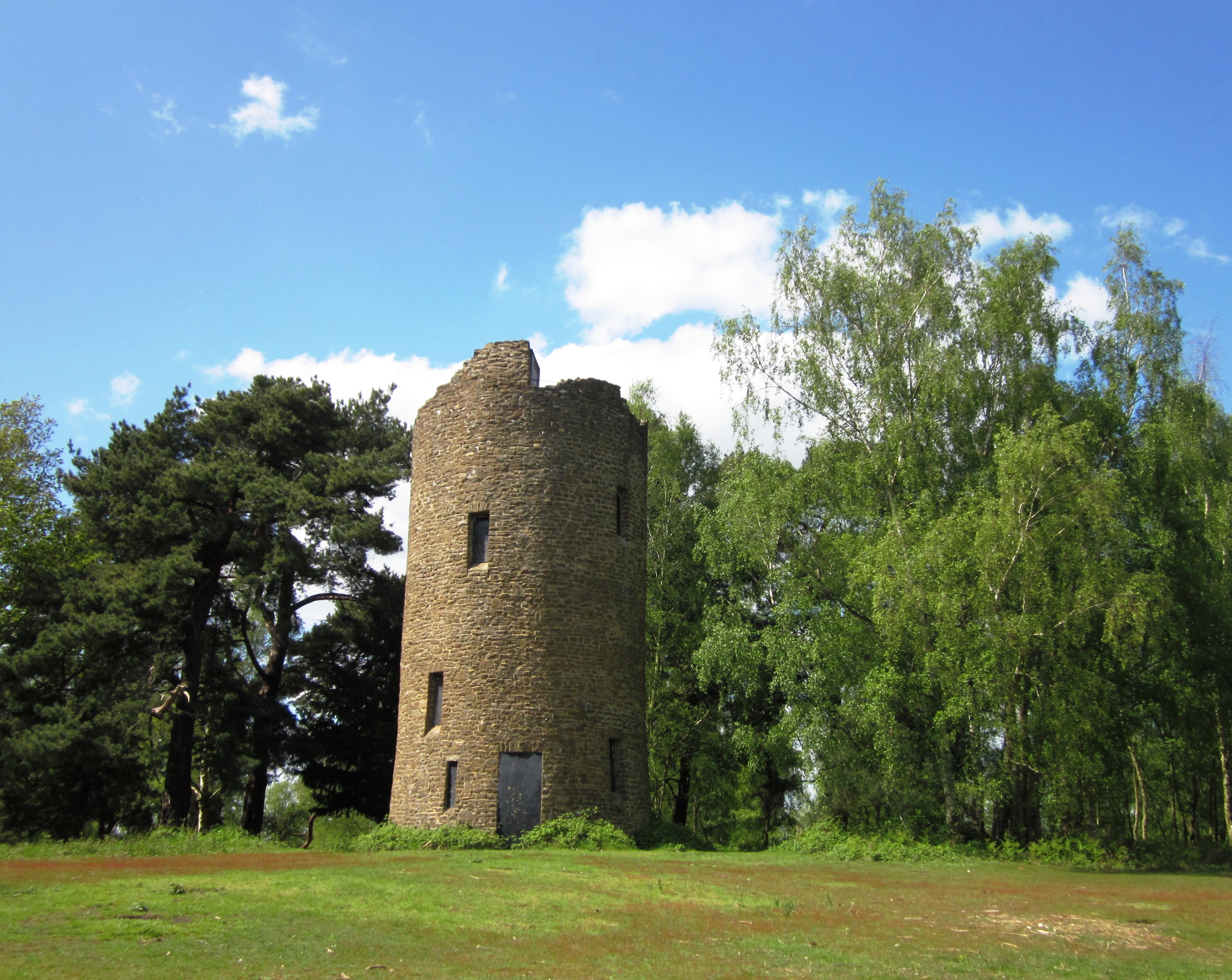 Chinthurst Hill Tower Wikidata has entry Q26534038 with data related to this item.